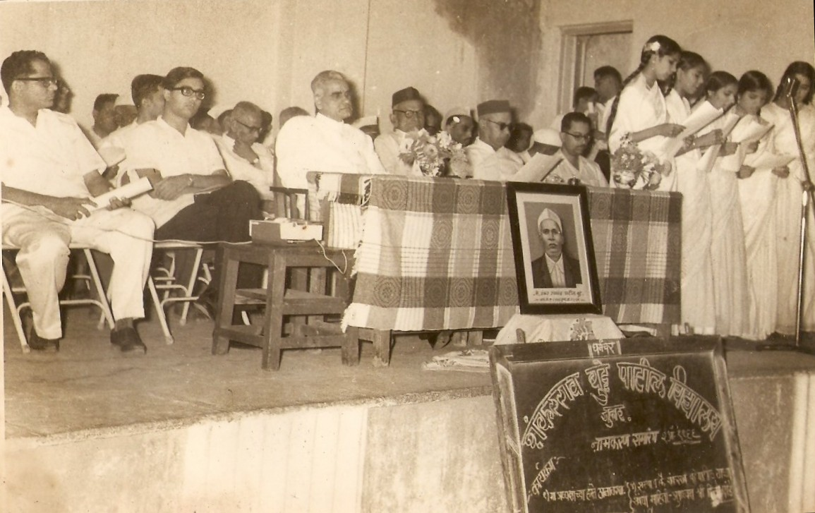 Butte Patil Vidyalaya